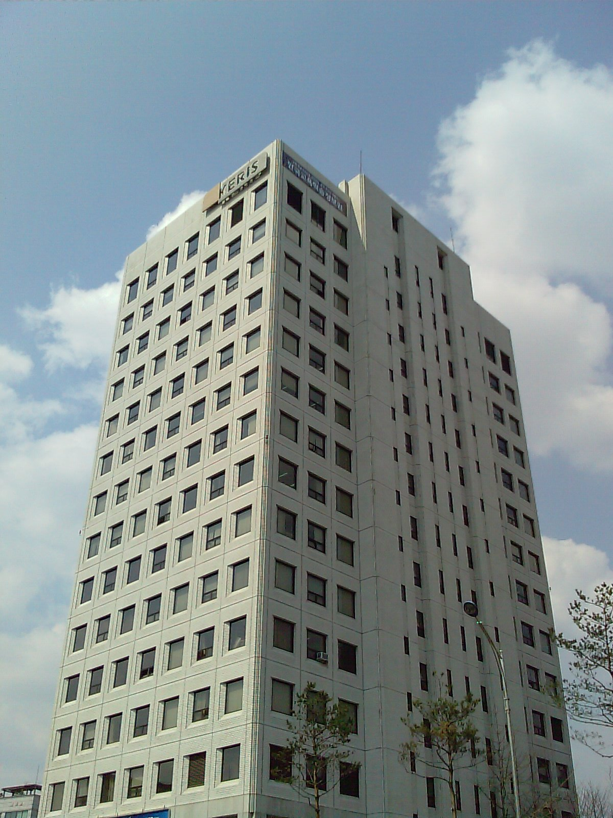 Exterior photo of the KERIS building in Seoul, South Korea